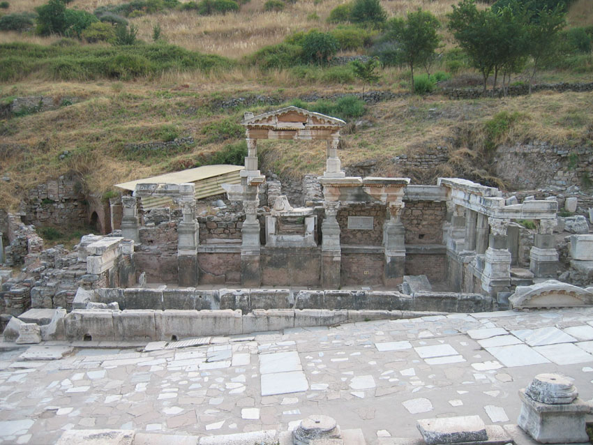 Author: Arsinoe